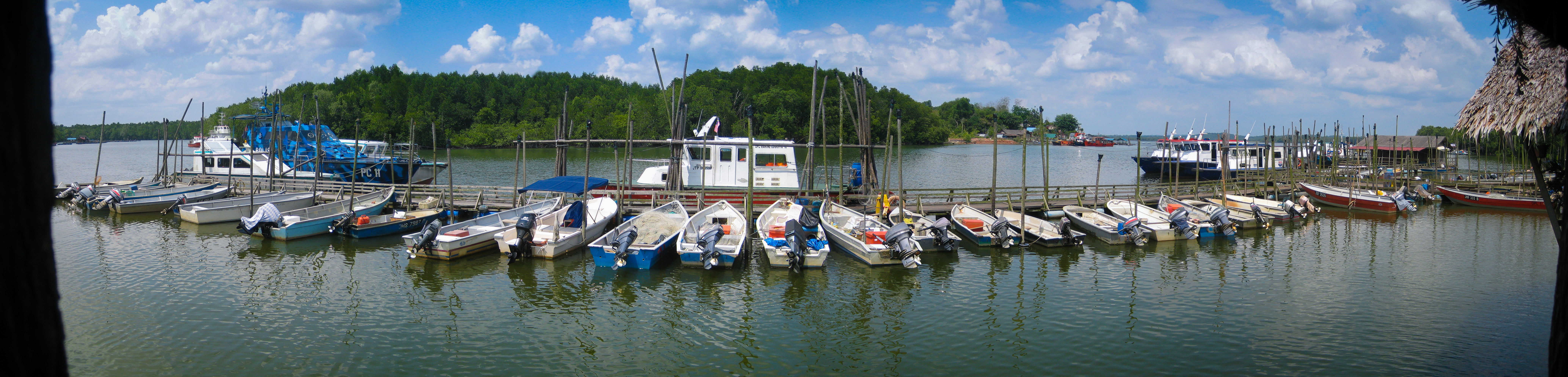 Johor Bahru boat services.